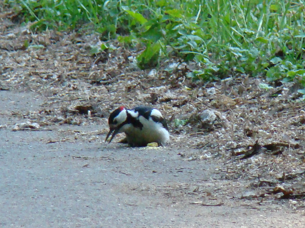 Photo of the Great Spotted Woodpecker (Dendrocopos major) in in Vingis park, Vilnius, Lithuania.